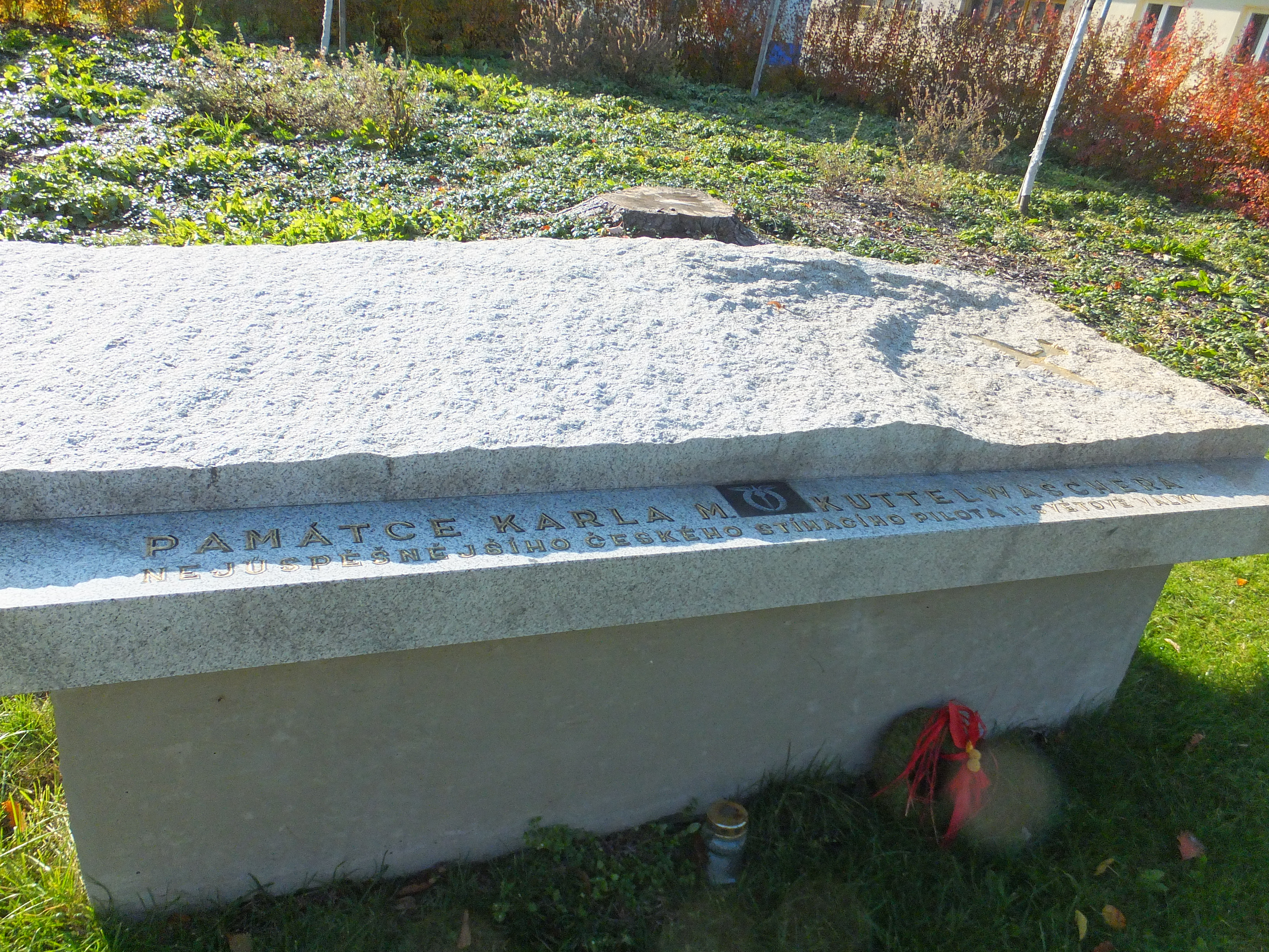 Svatý Kříž (Havlíčkův Brod) - the memorial of Karel Miloslav Kuttelwascher (the Czechoslovak fighter pilot) - the detail